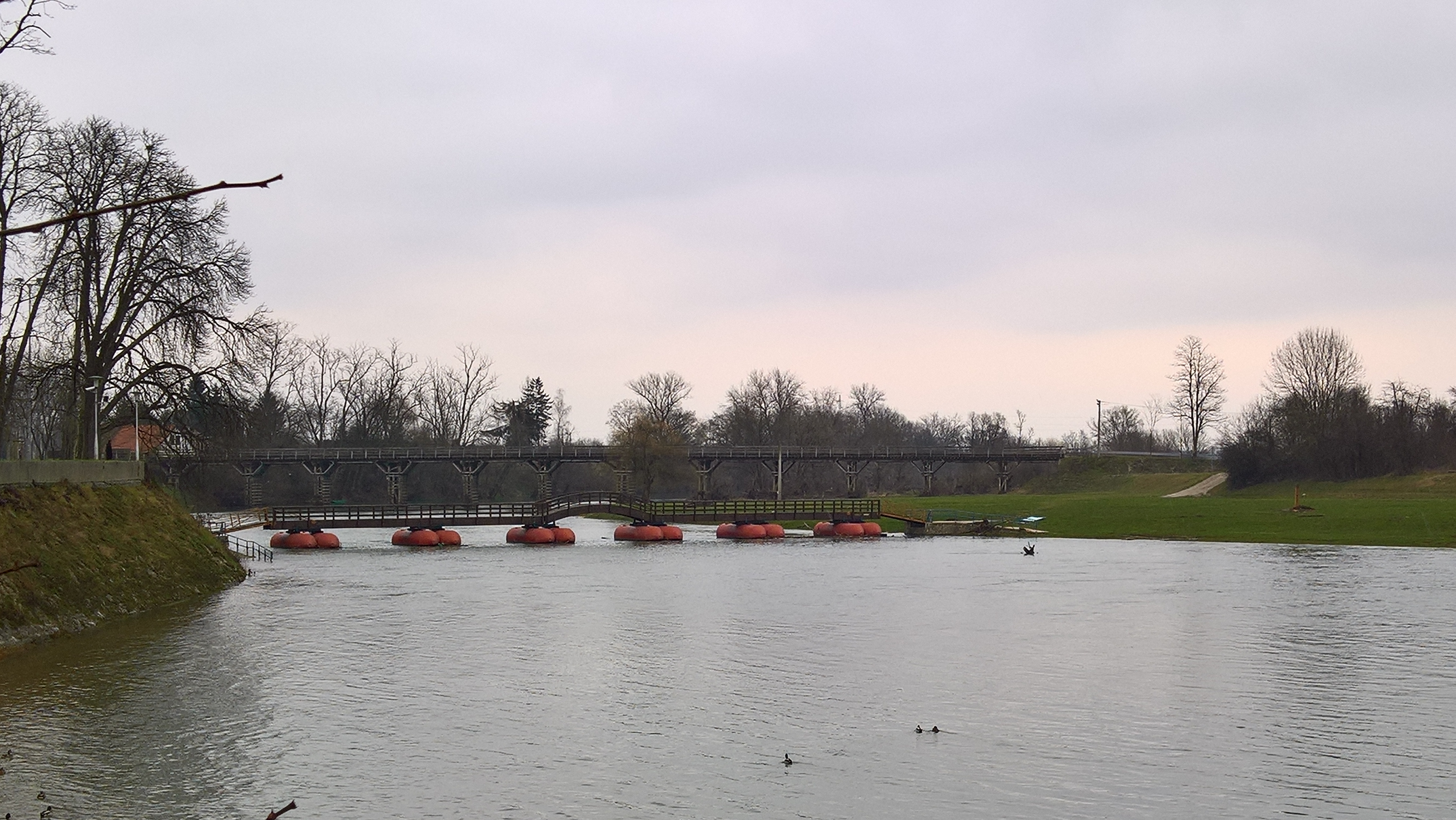 Wooden and ponton bridges over the Korana river, Karlovac.